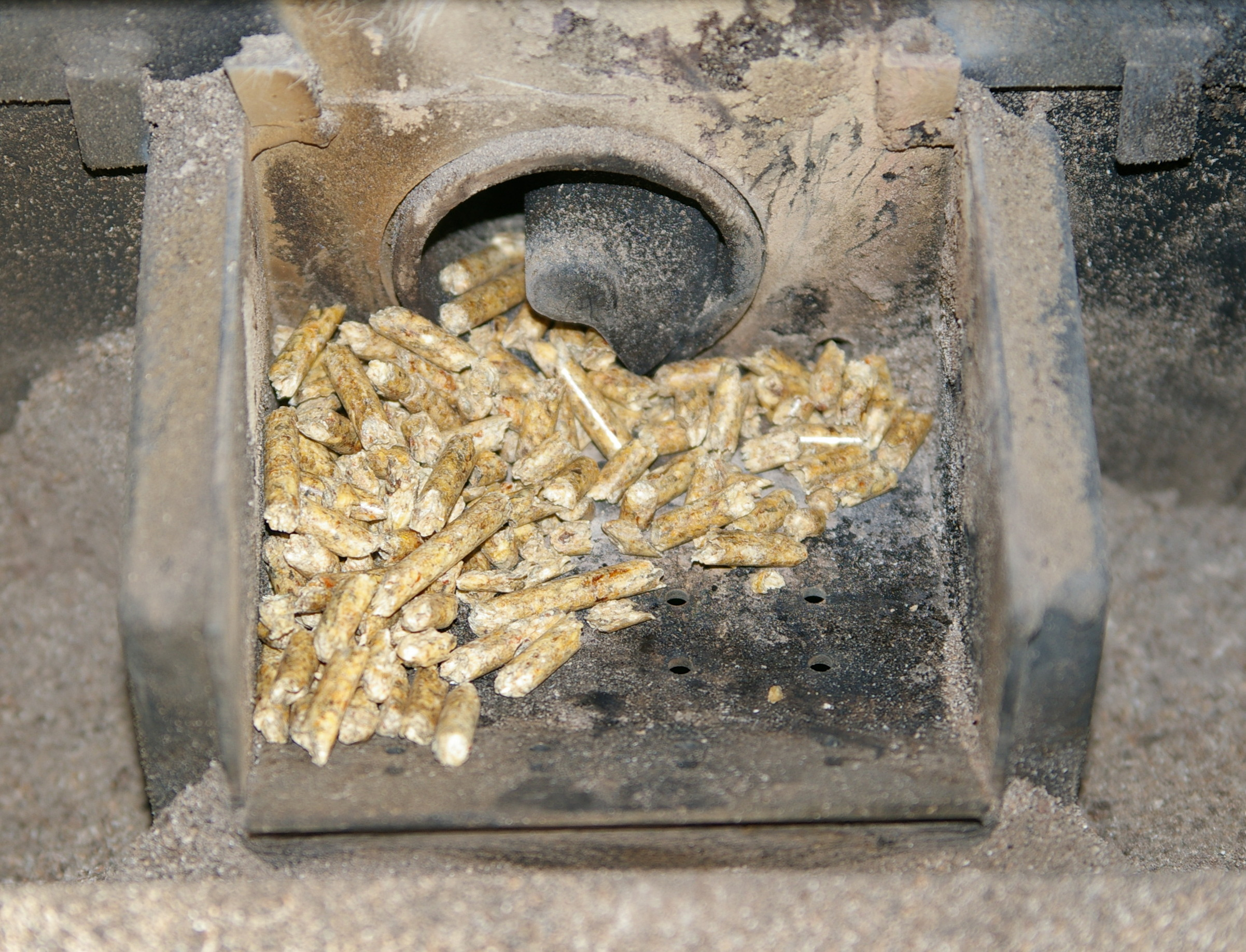 The burn pot of a pellet stove, with some pellets. The auger is in the back, the ignition device is the hole next to the auger on the right, the holes in the place where outside air is sucked through are clearly visible.